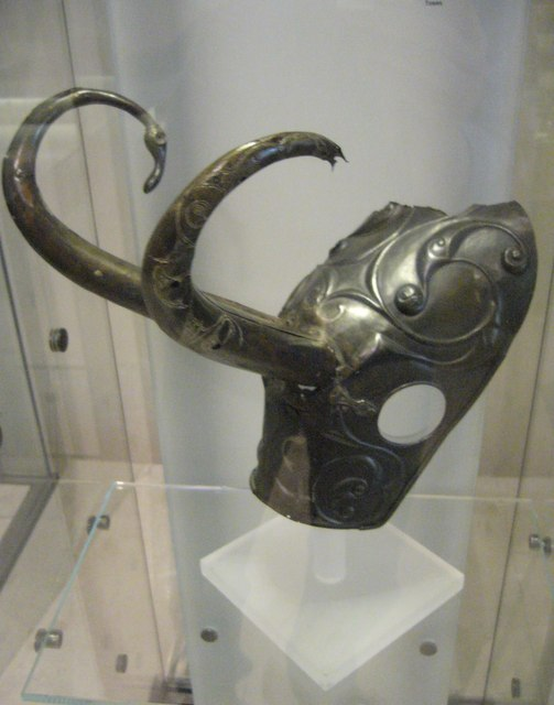 Celtic horse helmet (?) protective headgear for a horse, exhibited in the Royal Scottish Museum, Chambers Street.